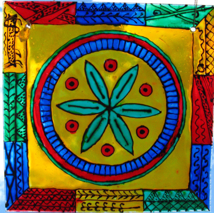 Kolomir - slavic symbol, (see Image:RozetaSolarSymbol.png)